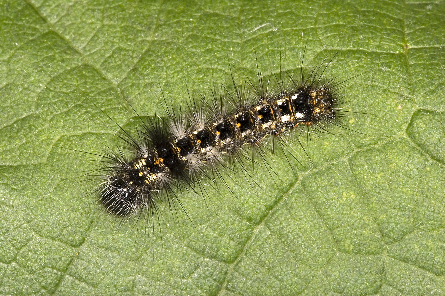 Knot Grass